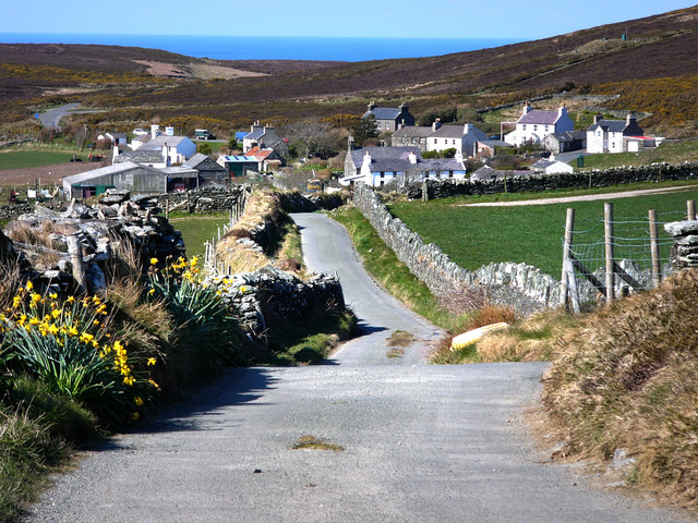 Cregneash village